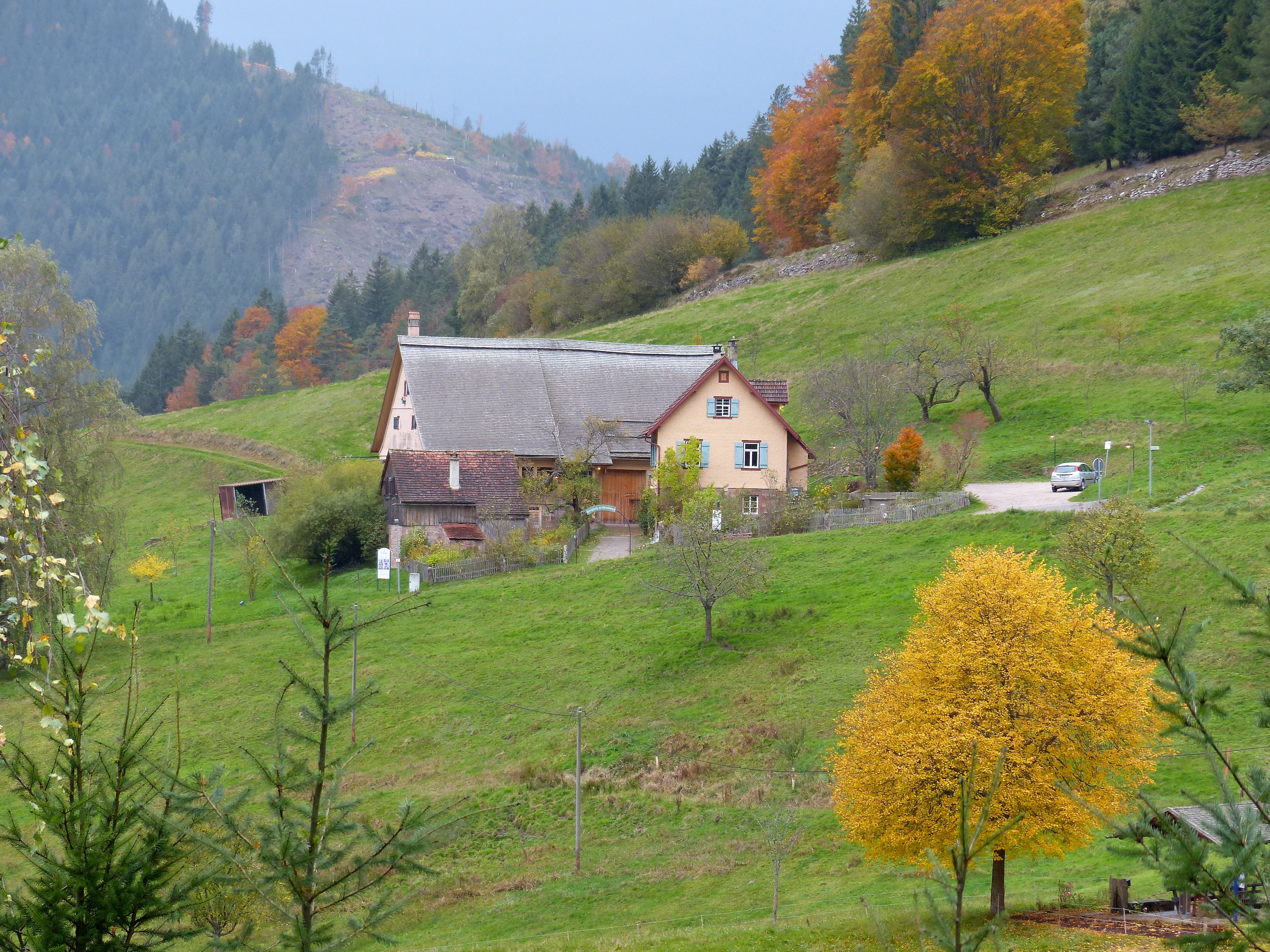 Hotel Bareiss: Morlokhof farmstead